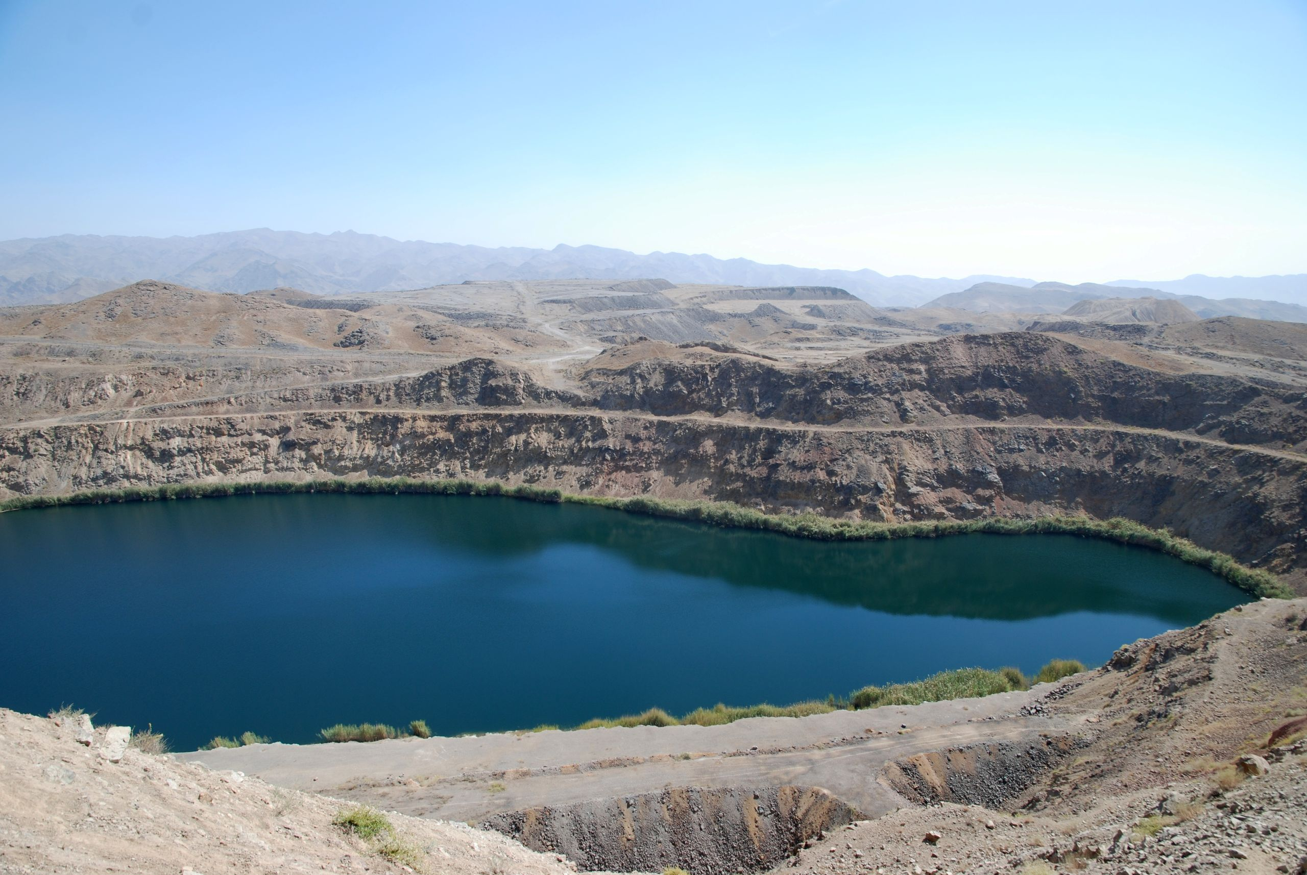 Taboshar, lake 2 km northeast of town, Sughd province, Tajikistan